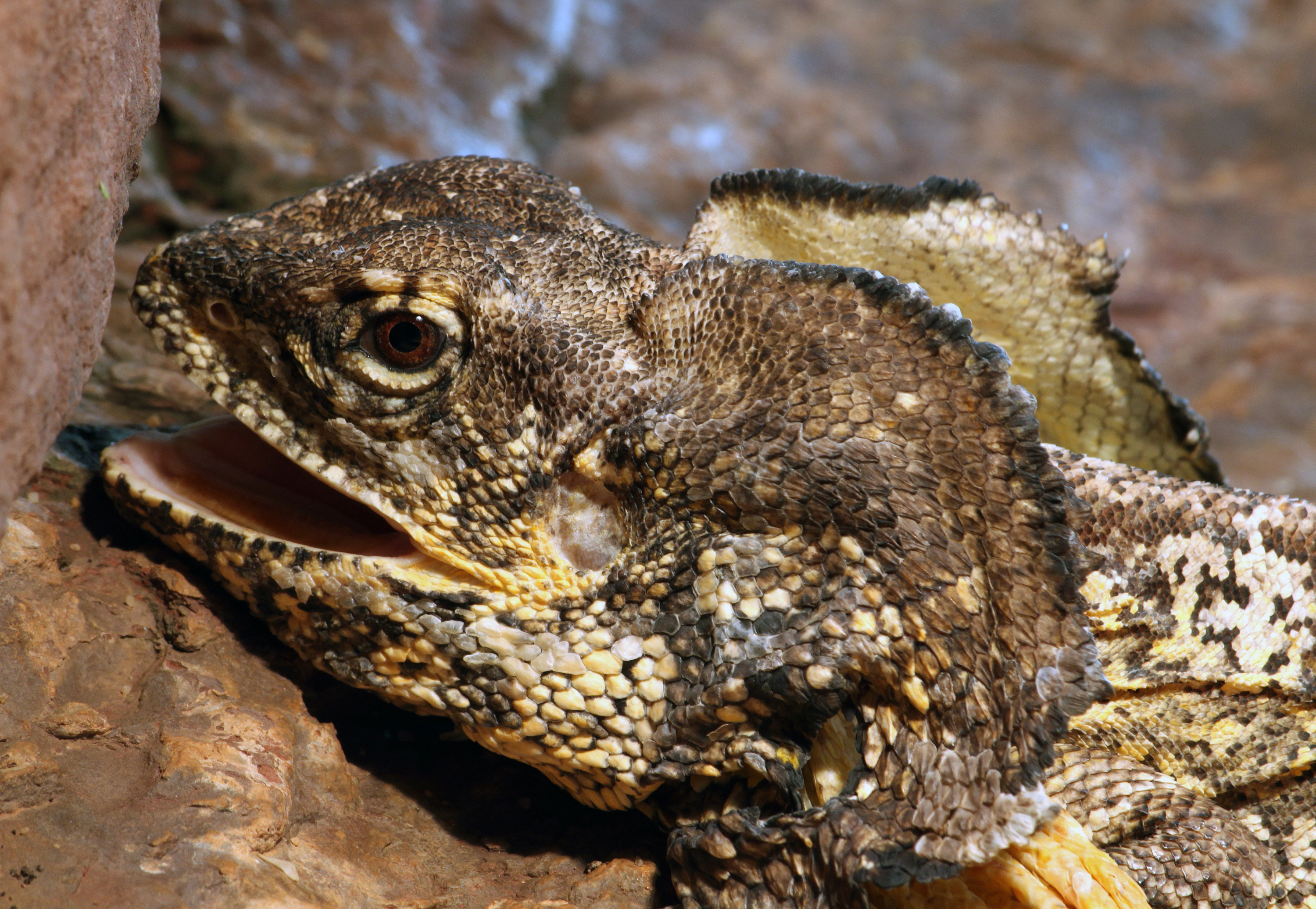 Frill-Necked Lizard, Frilled Lizard or Frilled Dragon Chlamydosaurus kingii, Family: Agamidae, Location: Germany, Stuttgart, Zoological Garden